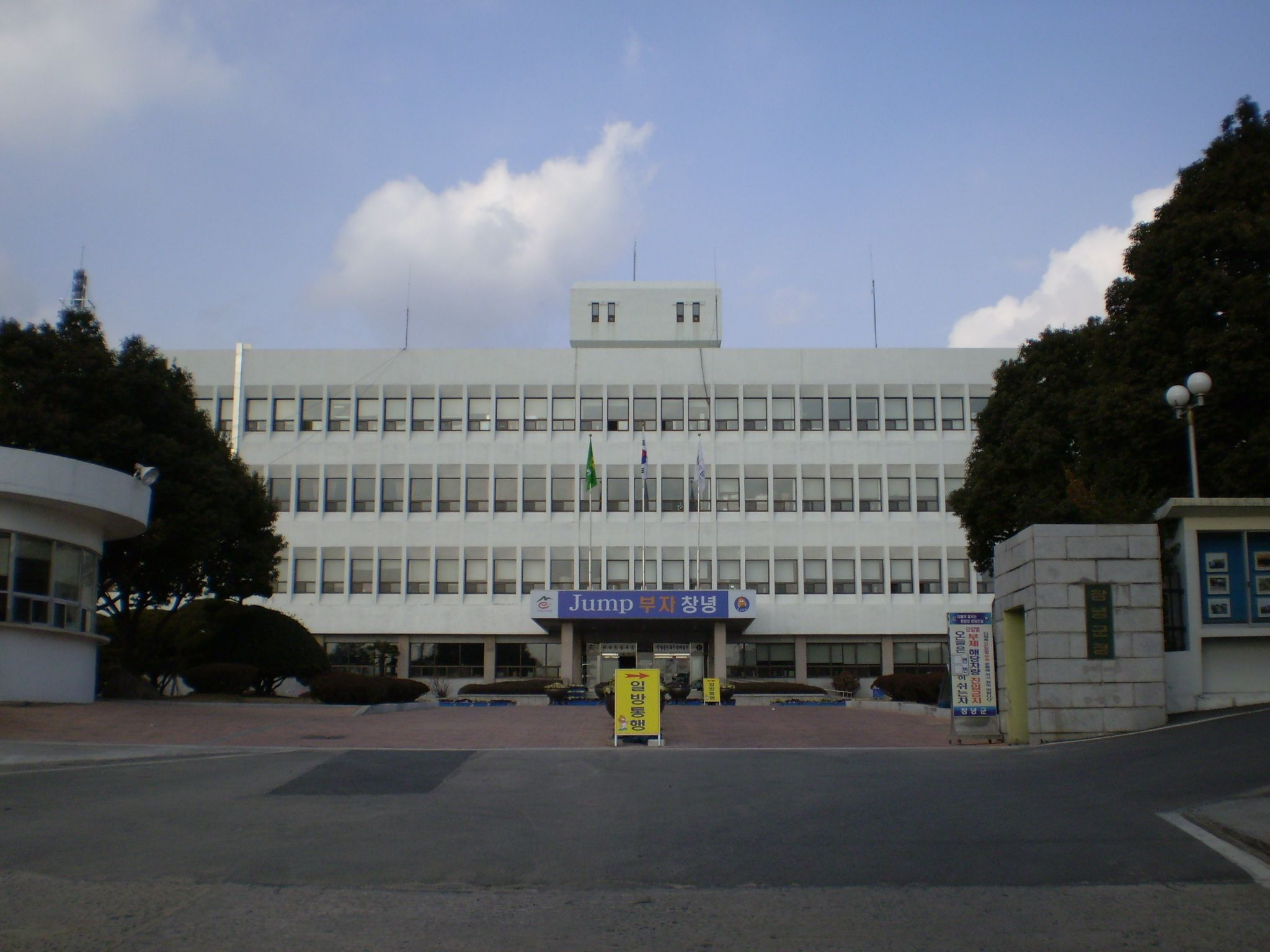 County government building in Changnyeong, Gyeongsangnam-do, South Korea.